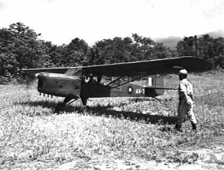 A Royal Australian Air Force Auster AOP.III (RAF serial NK123, RAAF A11-3) from No. 17 Air Observation Post Flight on Bougainville island in 1945. This aircraft was delivered to the RAAF on 17 September 1944. It crash-landed at Vernon Strip, Bougainville, on 3 April 1945, smashing undercarriage propeller on landing. It was broken up for spares on 11 February 1946.